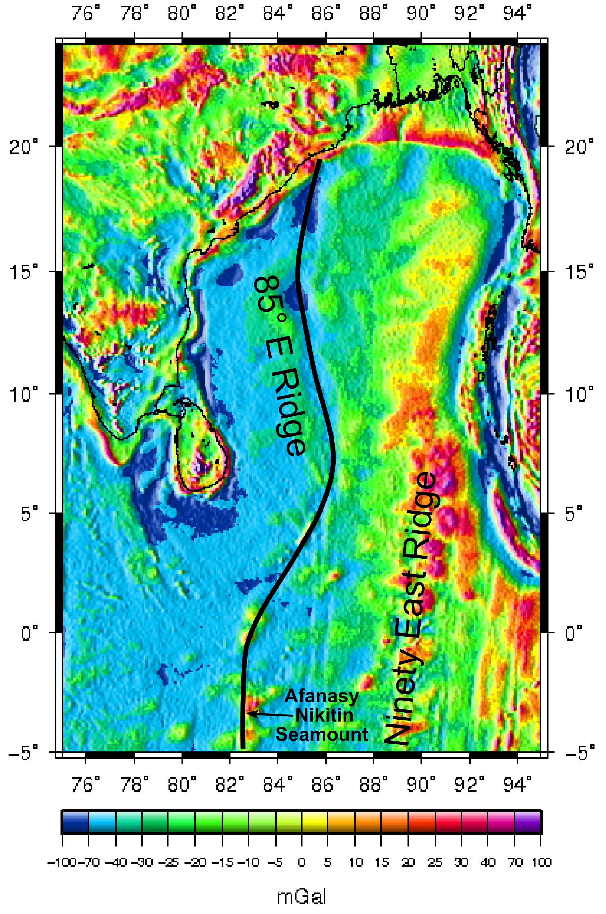 Free-air gravity anomaly map covering the Bay of Bengal from using EGM2008 data publicly released by the National Geospatial Intelligence Agency (NGA) with annotations added from here